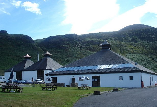 Arran Distillery, Lochranza , Isle of Arran. The newest distillery in Scotland.